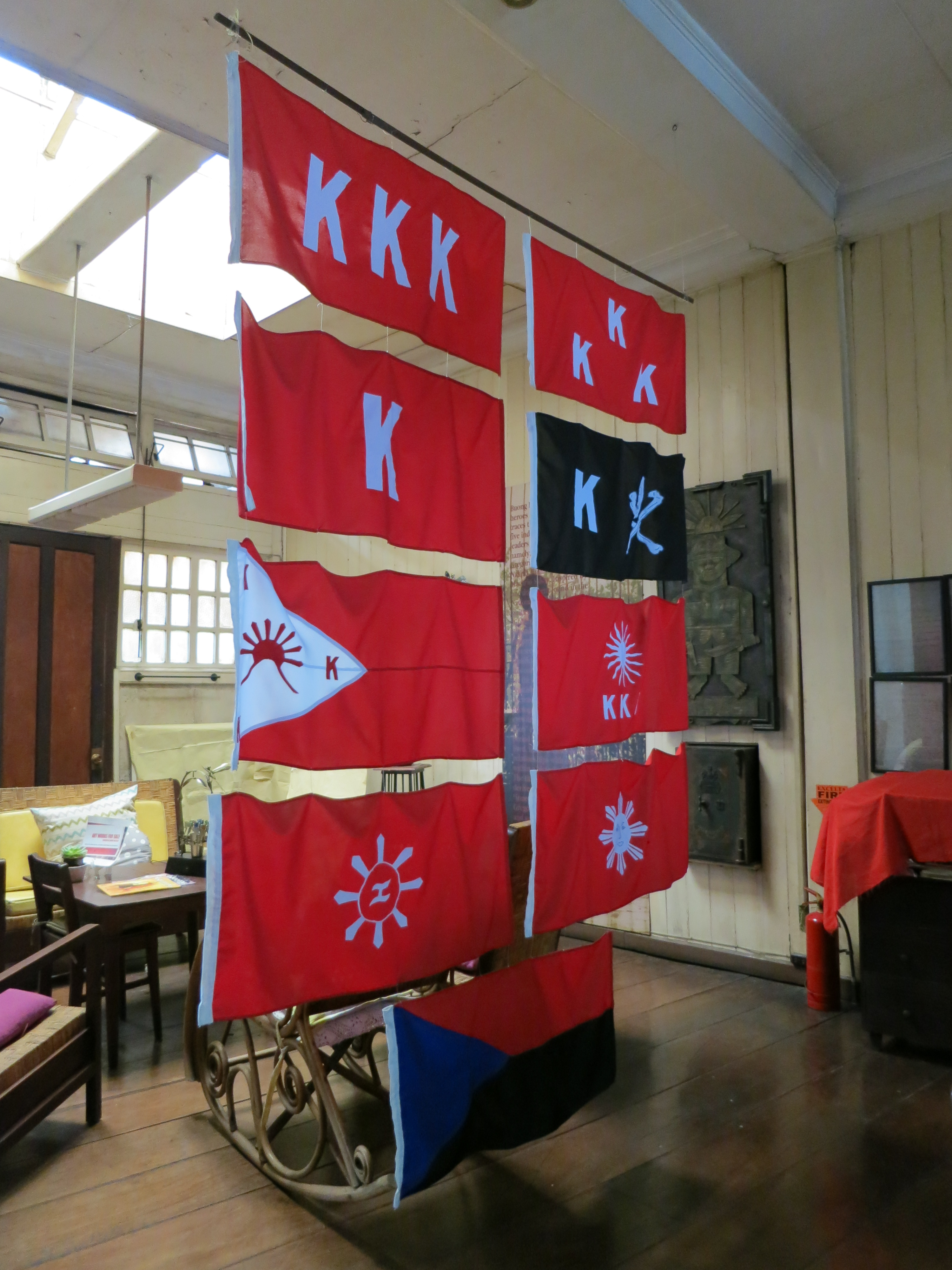 Replica of the flags of the Philippine Revolution on display at the Bahay Nakpil-Bautista in Quiapo, Manila.